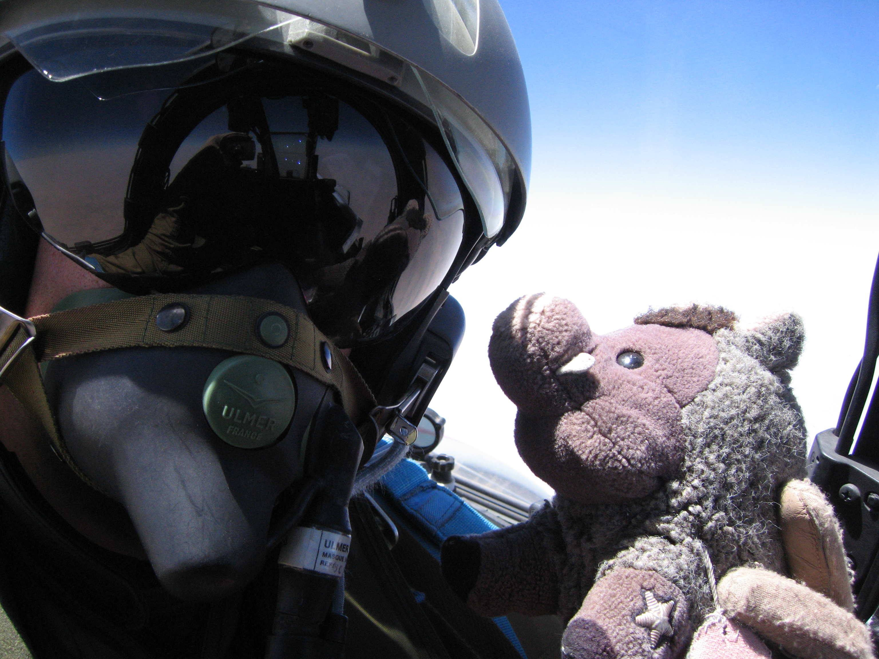 Aldo in flight